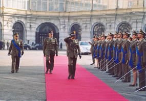 Officers of the Turin Application School at their swearing-in ceremony